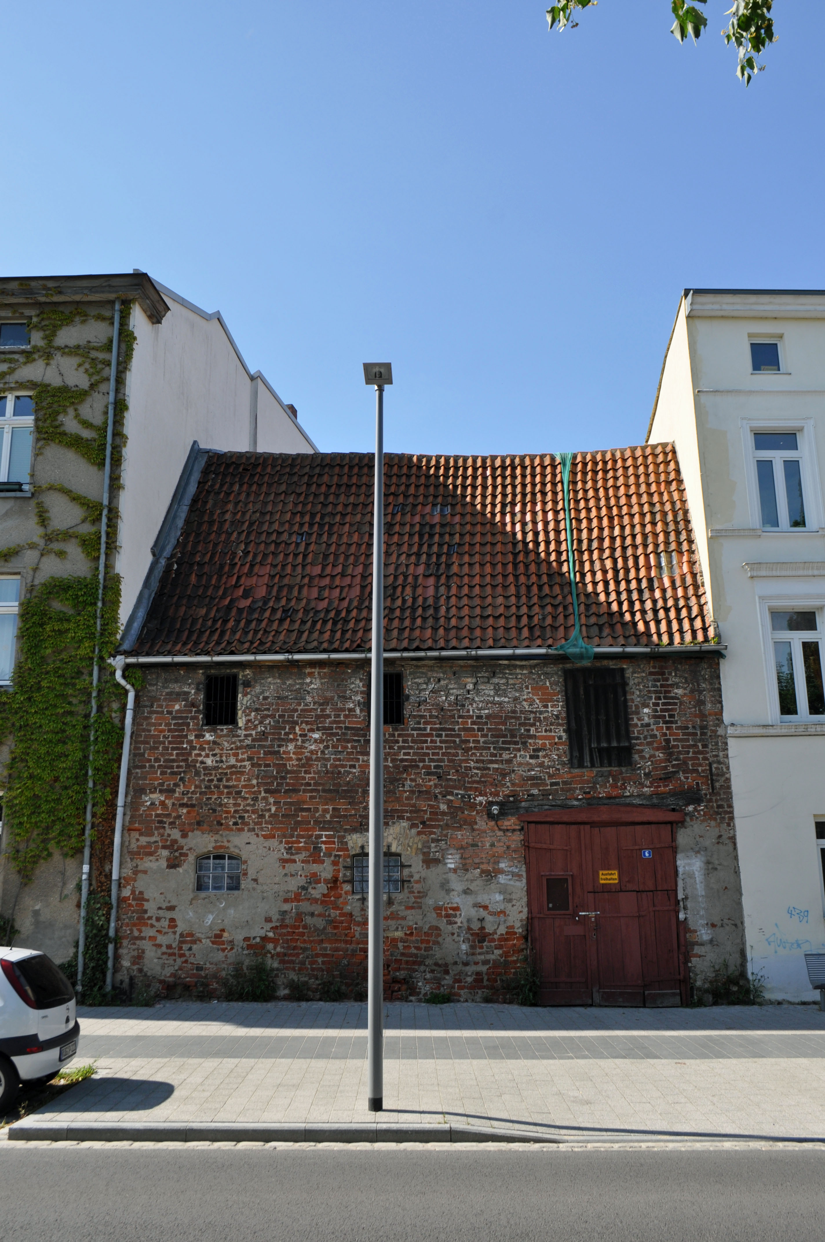 Stralsund, Frankenwall 6 This is a photograph of an architectural monument.